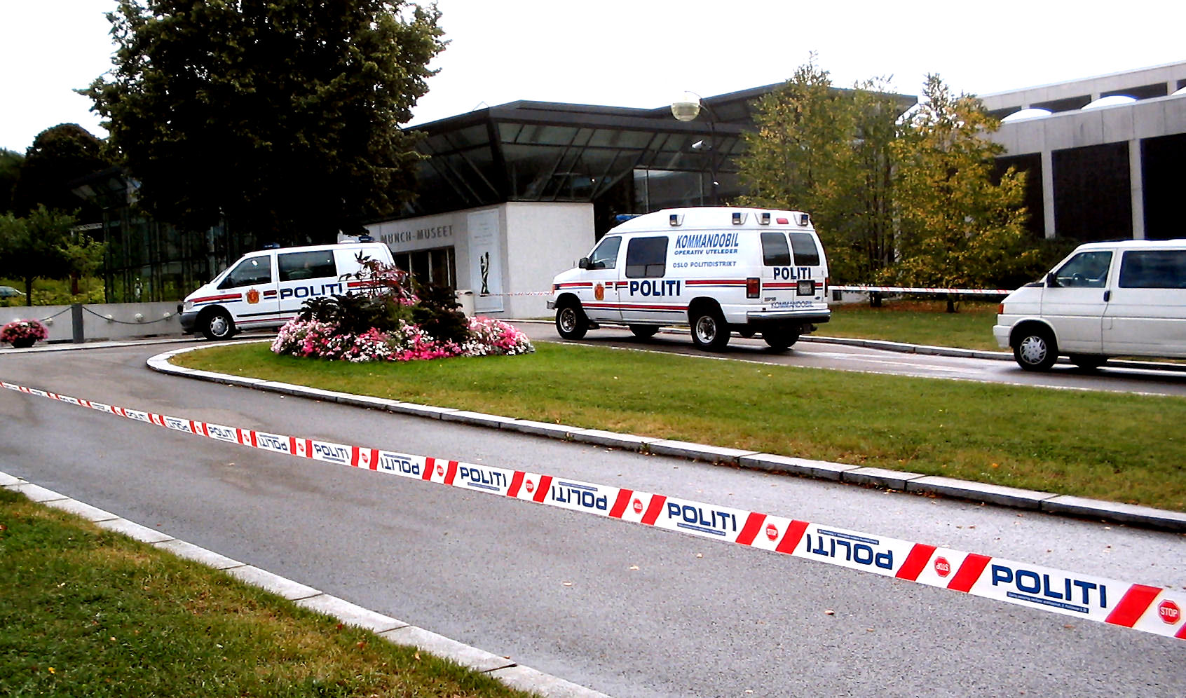 Photo taken outside the Munch Museum approx. two hours after "Scream" was robbed.